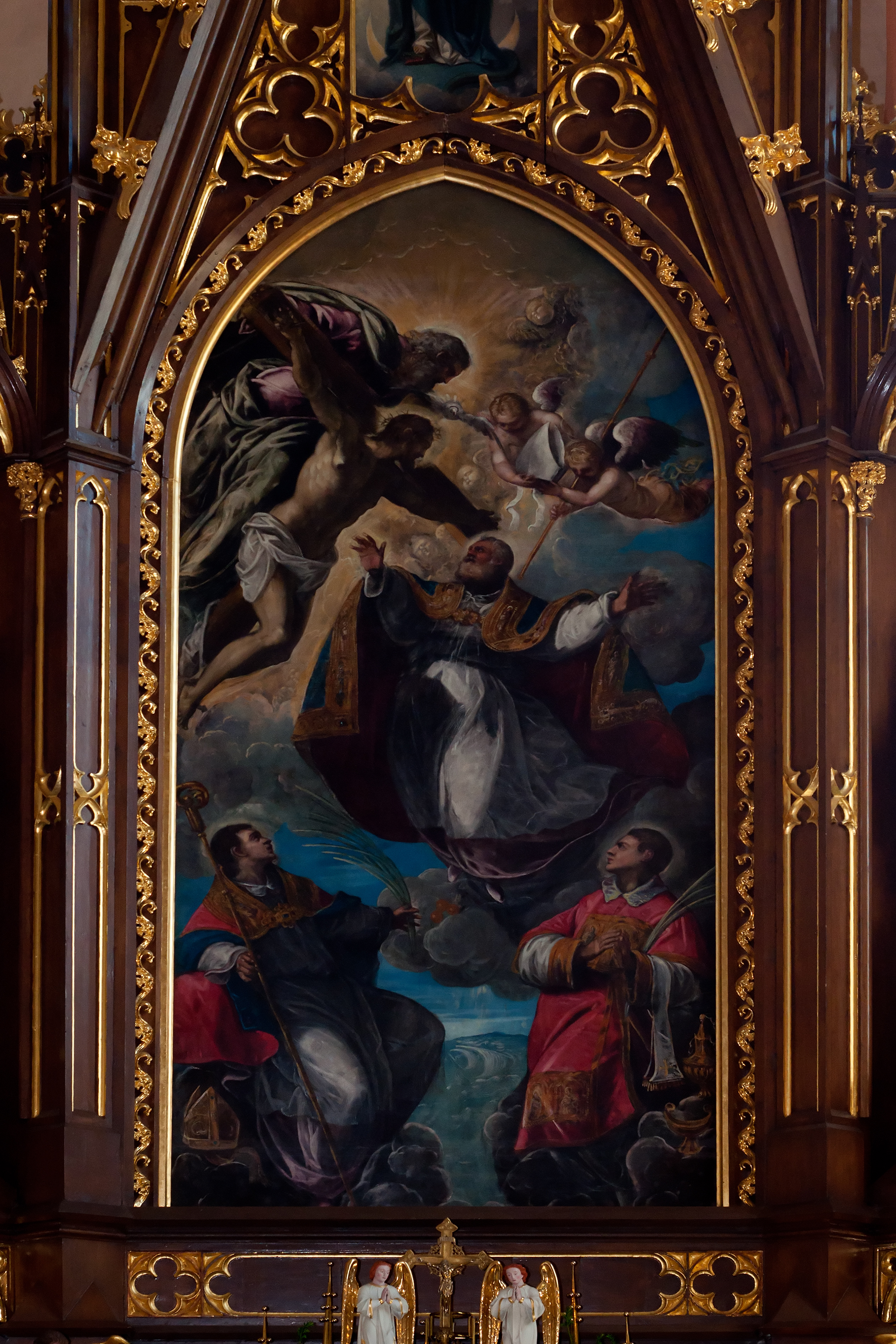 Jacobo Robusti Tintoretto's painting of St. Nicholas. The painting is exhibited at the main altar in Novo Mesto Cathedral in southeastern Slovenia.